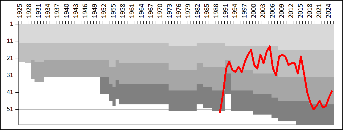 A chart showing the progress of Assyriska FF through the Swedish football league system. Horizontal black lines represent league divisions.